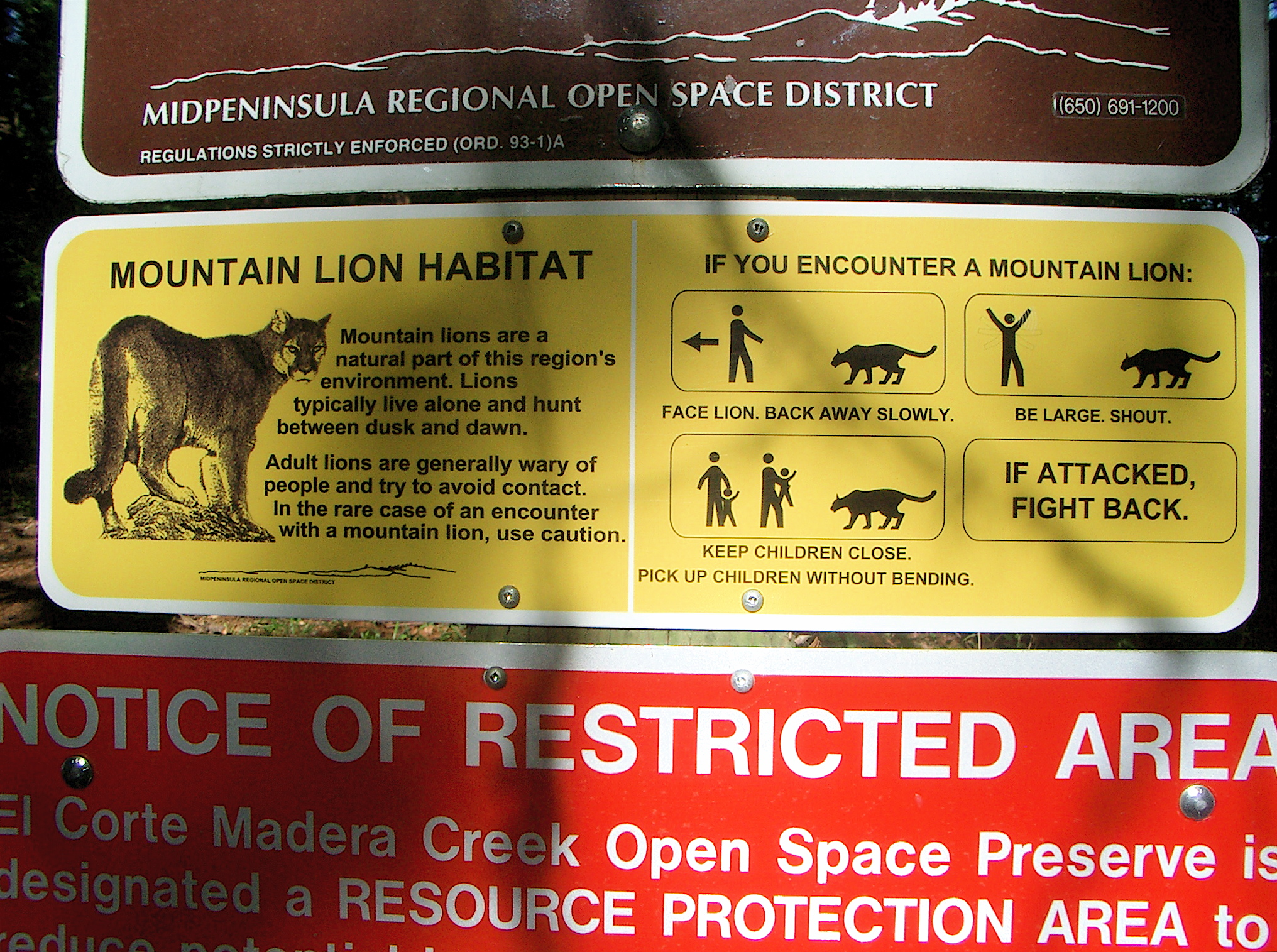 Mountain lion warning sign, posted at Skeggs Point in the El Corte de Madera Creek Open Space Preserve (in the Midpeninsula Regional Open Space District) - San Mateo County, northern California. Original caption: "seen mountain biking at Skeggs today" Taken from flickr, released by user jurvetson under commons attribution license. Original at